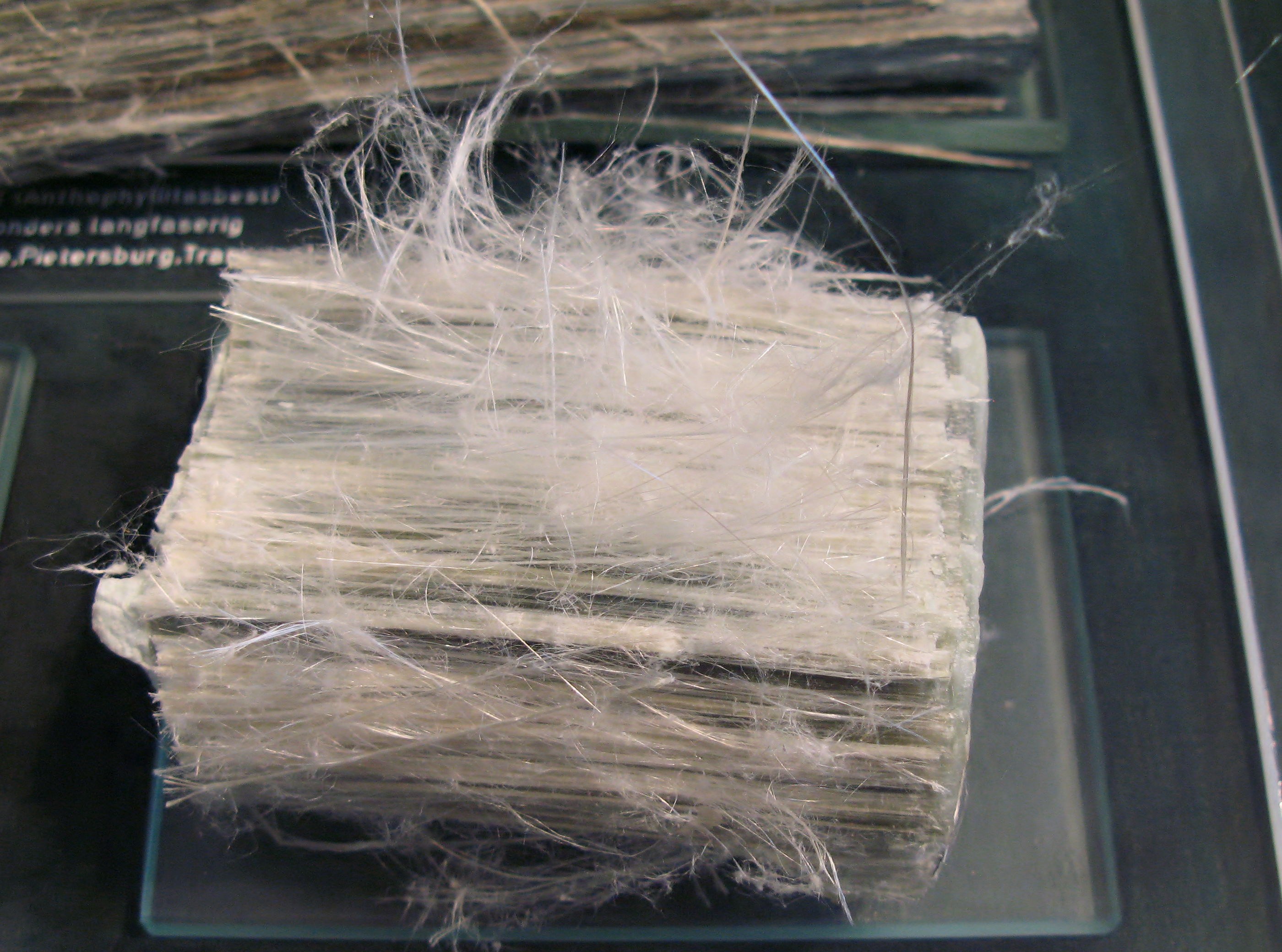 Chrysotil asbestos out of serpentinized Dolomite - Locality: Farm Rietfontein, Carolina, Transvaal - Exposed in the Mineralogical Museum, Bonn, Germany